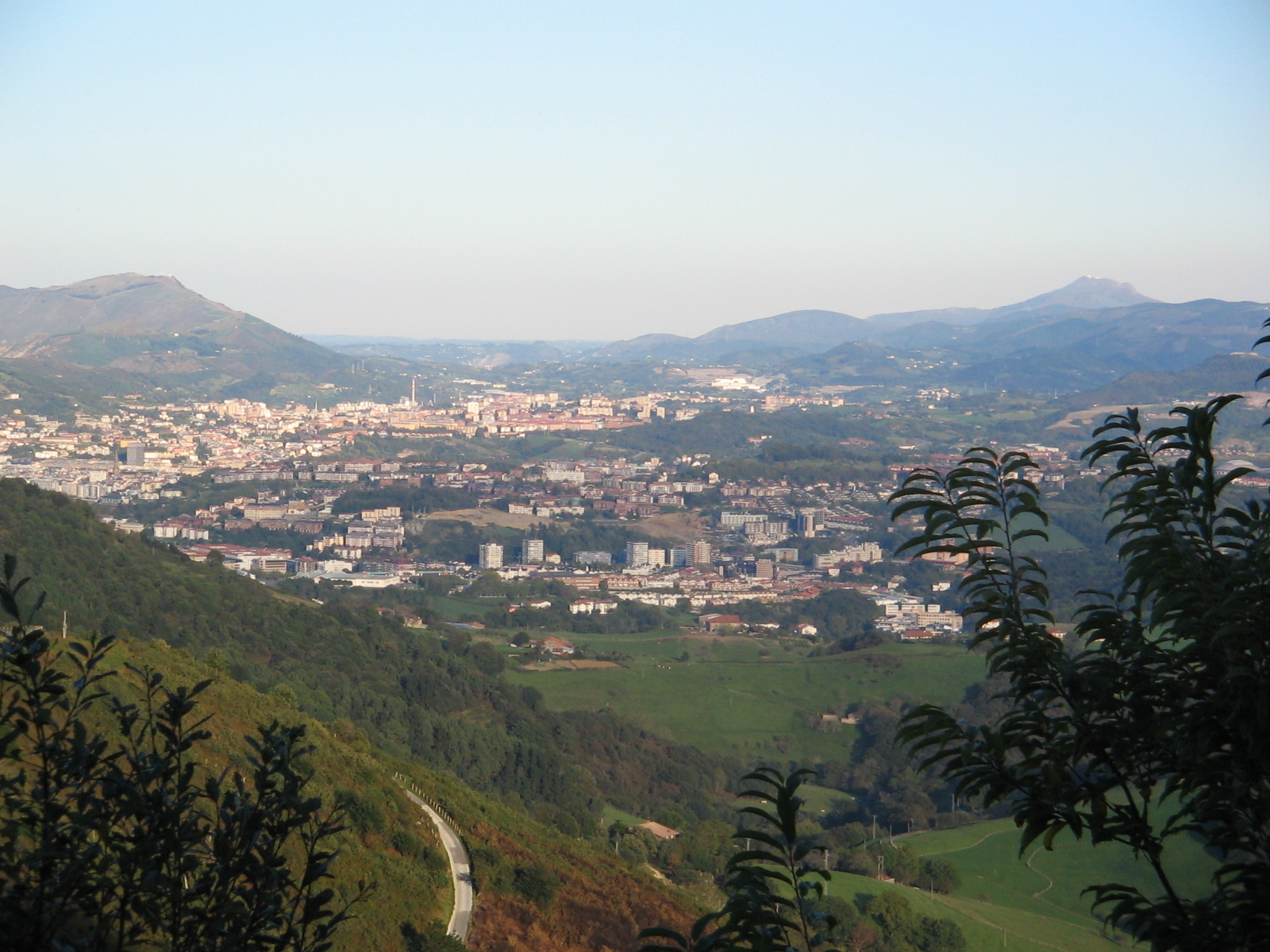 West to east orientation, Donostia, Pasaia, the Jaizkibel at top left and the Larrun at the top right.